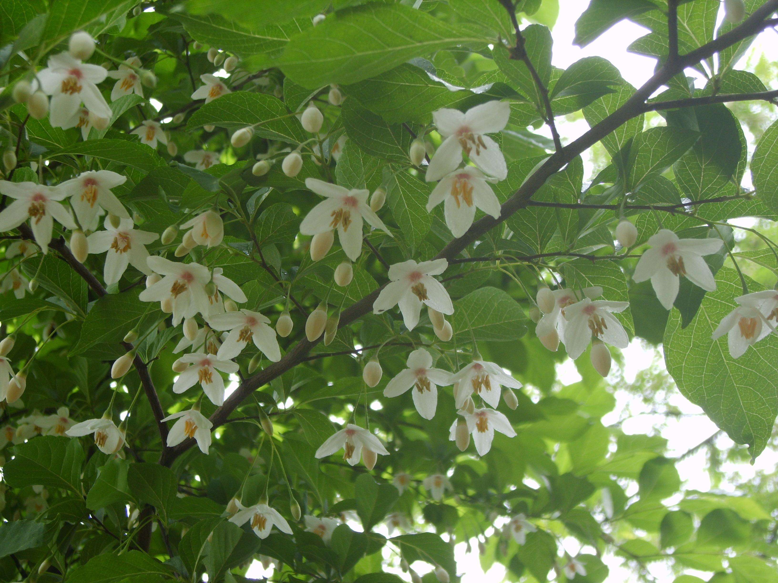 Styrax japonicus in Bupyung, Korea